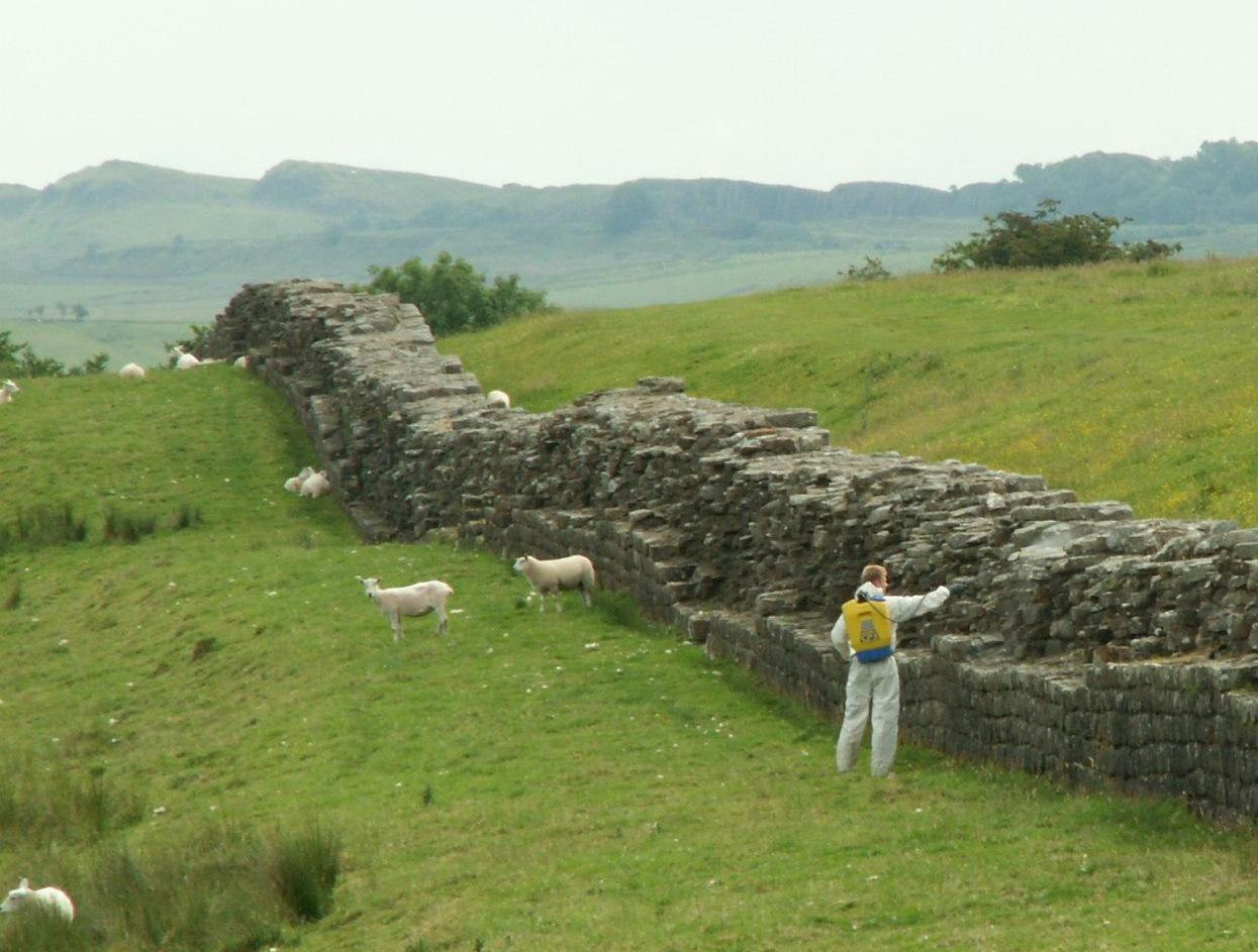 Hadrian's Wall near Birdoswald Fort. Man with weedkiller preventing biological weathering of stones.